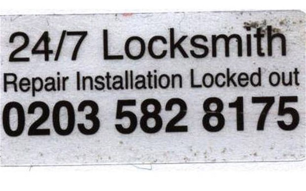 A locksmith sticker with a fake number, used by thieves to mark vulnerable houses.